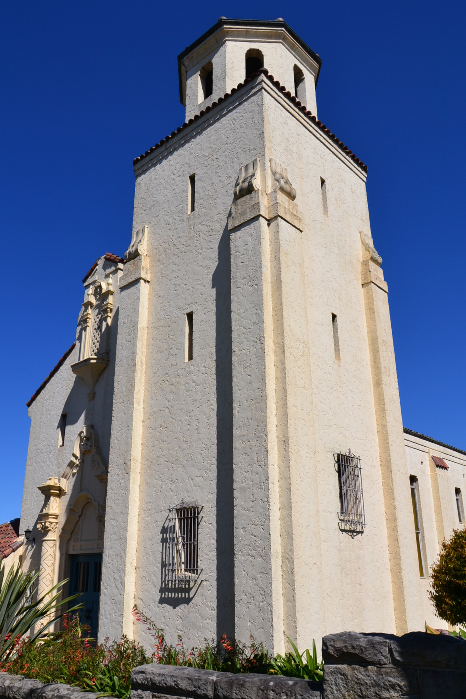 Bell tower of Ku-ring-gai Town Hall — in Pymble, Sydney. Former church with Australian interpretation of Mission Revival Style architecture (built 1934).